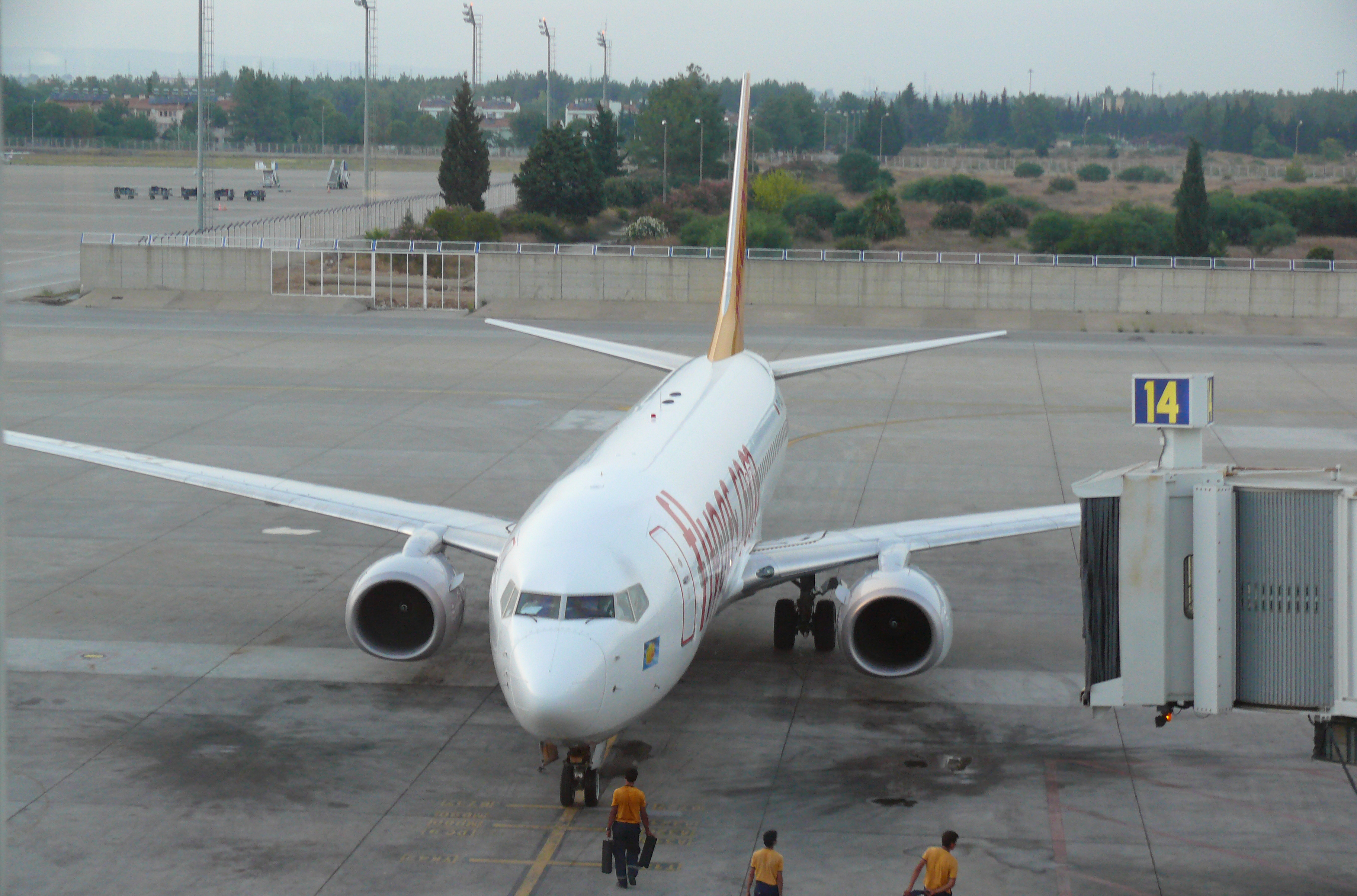 Pegasus Airlines TC-AAK Boeing 737-800 at Antalya Airport.